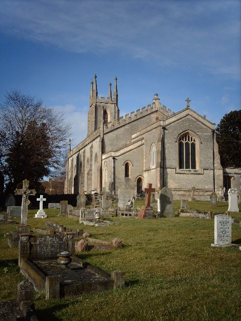 Christ Church, Warminster, Wiltshire, seen from the southeast. The church was built in 1830–31. The chancel (right) was designed by TH Wyatt and added in 1871.